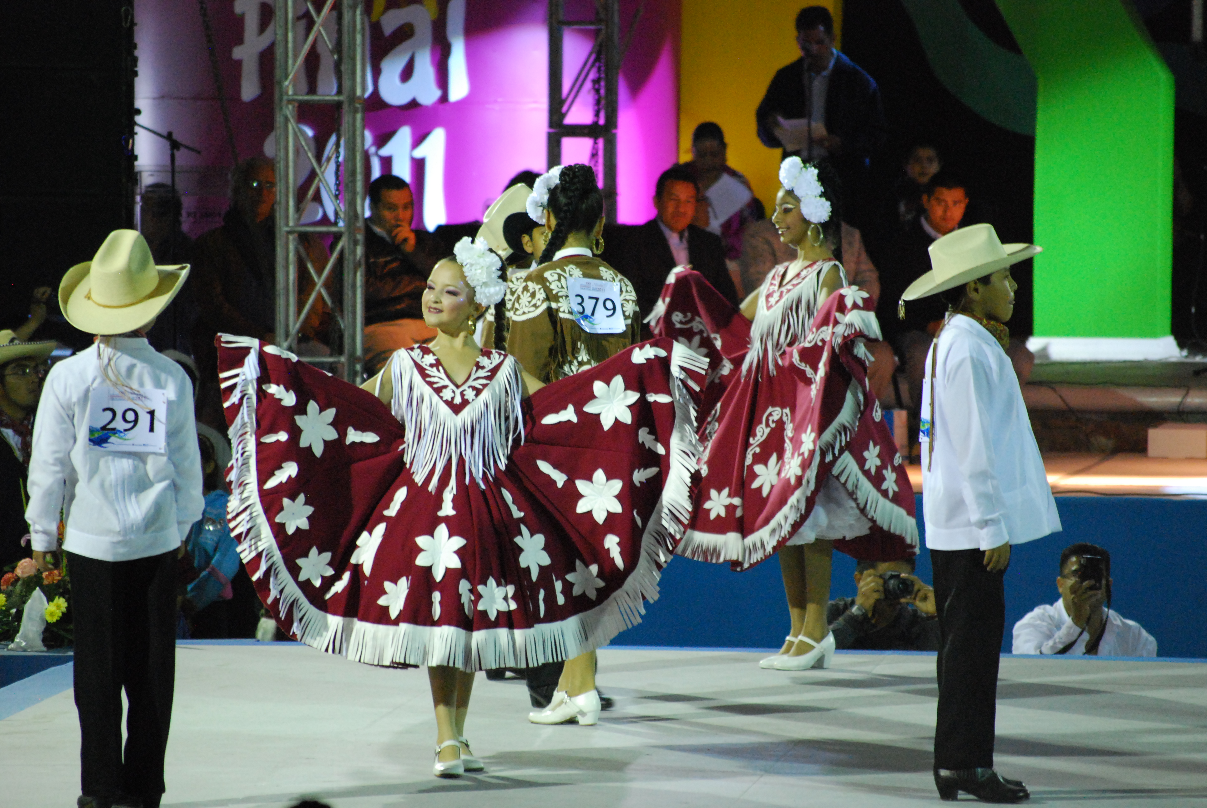 Dancers at the Concurso Nacional de Baile Huapango in Pinal de Amoles, Querétaro, Mexico